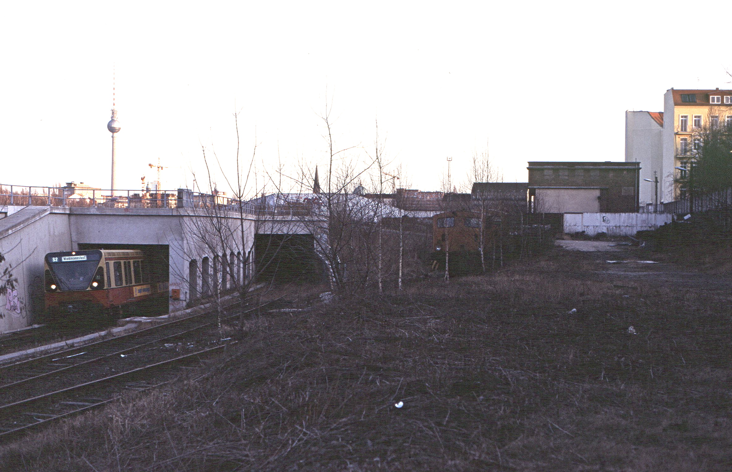 Tunnel close to Nordbahnhof S-Bahn station in Berlin, Germany